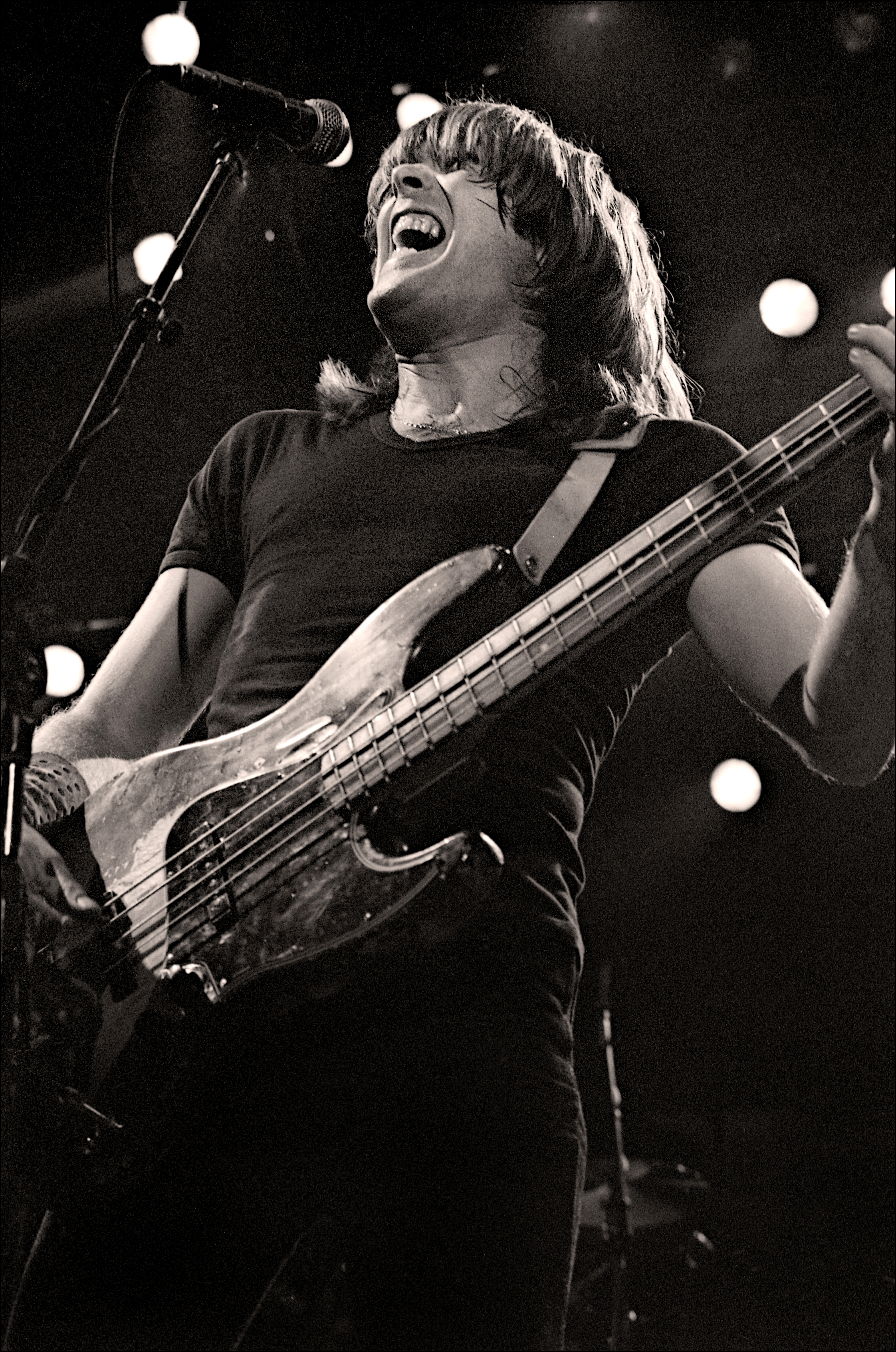 AC/DC - Manchester Apollo - 1982 Cliff Williams